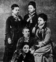 Founders of the Sigma Kappa Sorority. Sigma Kappa Official Page